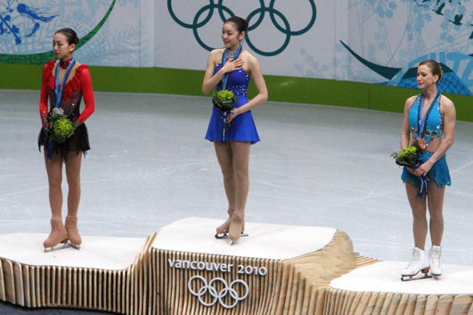 2010 Winter Olympic - Figure skating Ladies podium - Yuna Kim(1st), Mao Asada(2nd), Joannie Rochette (3rd).